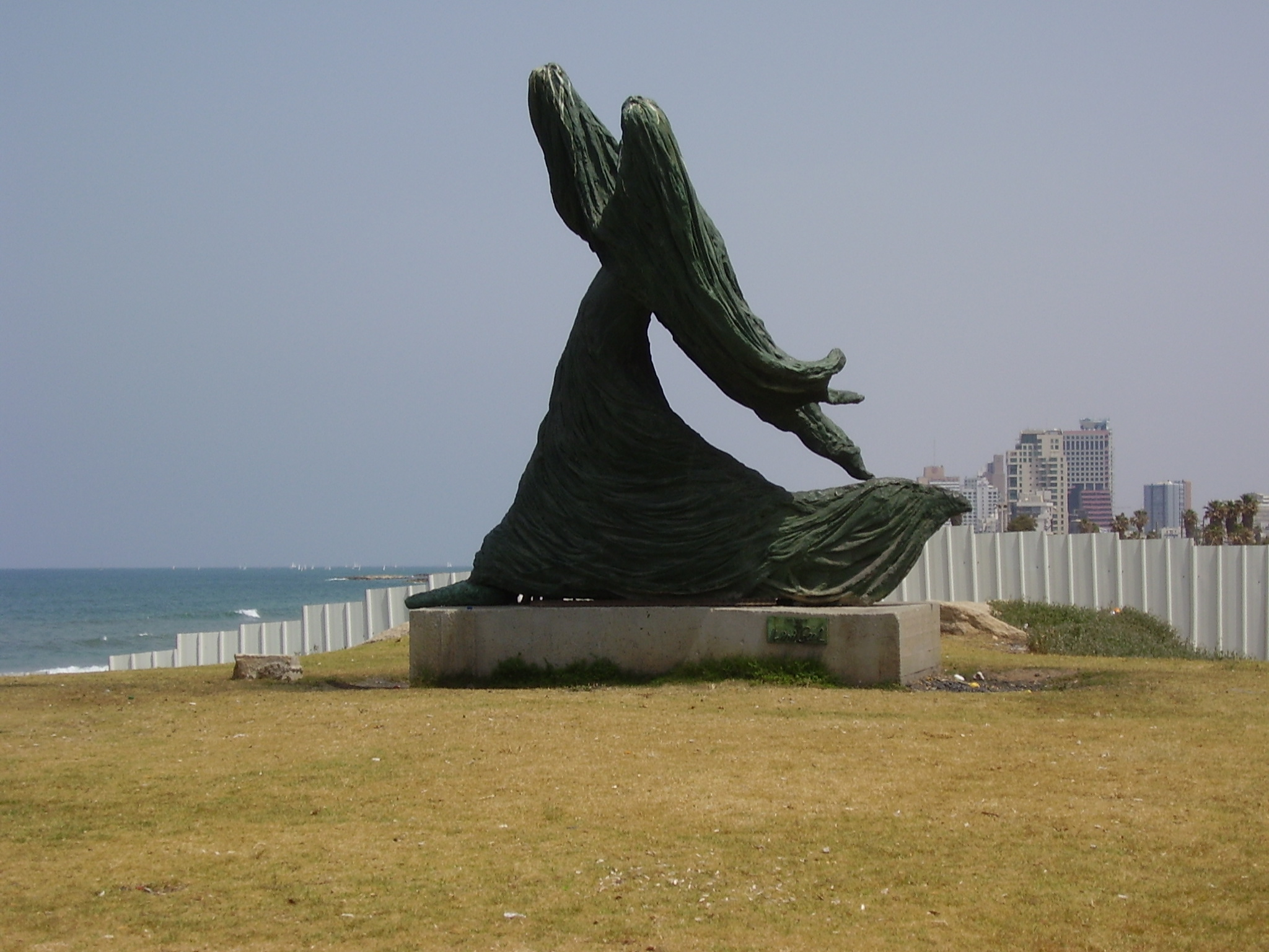 Woman against the wind by Ilana Gur